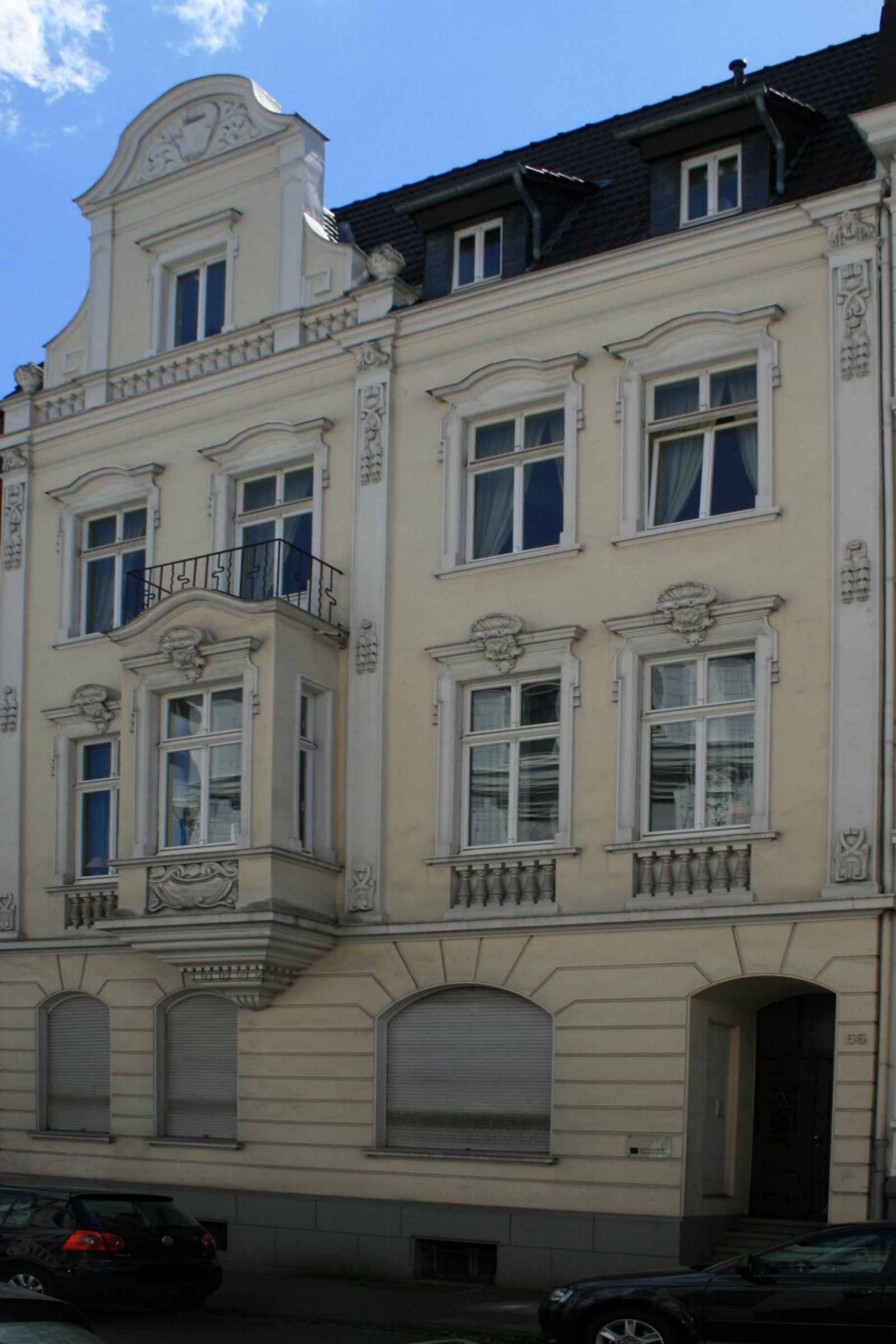 Cultural heritage monument No. K 050 in Mönchengladbach